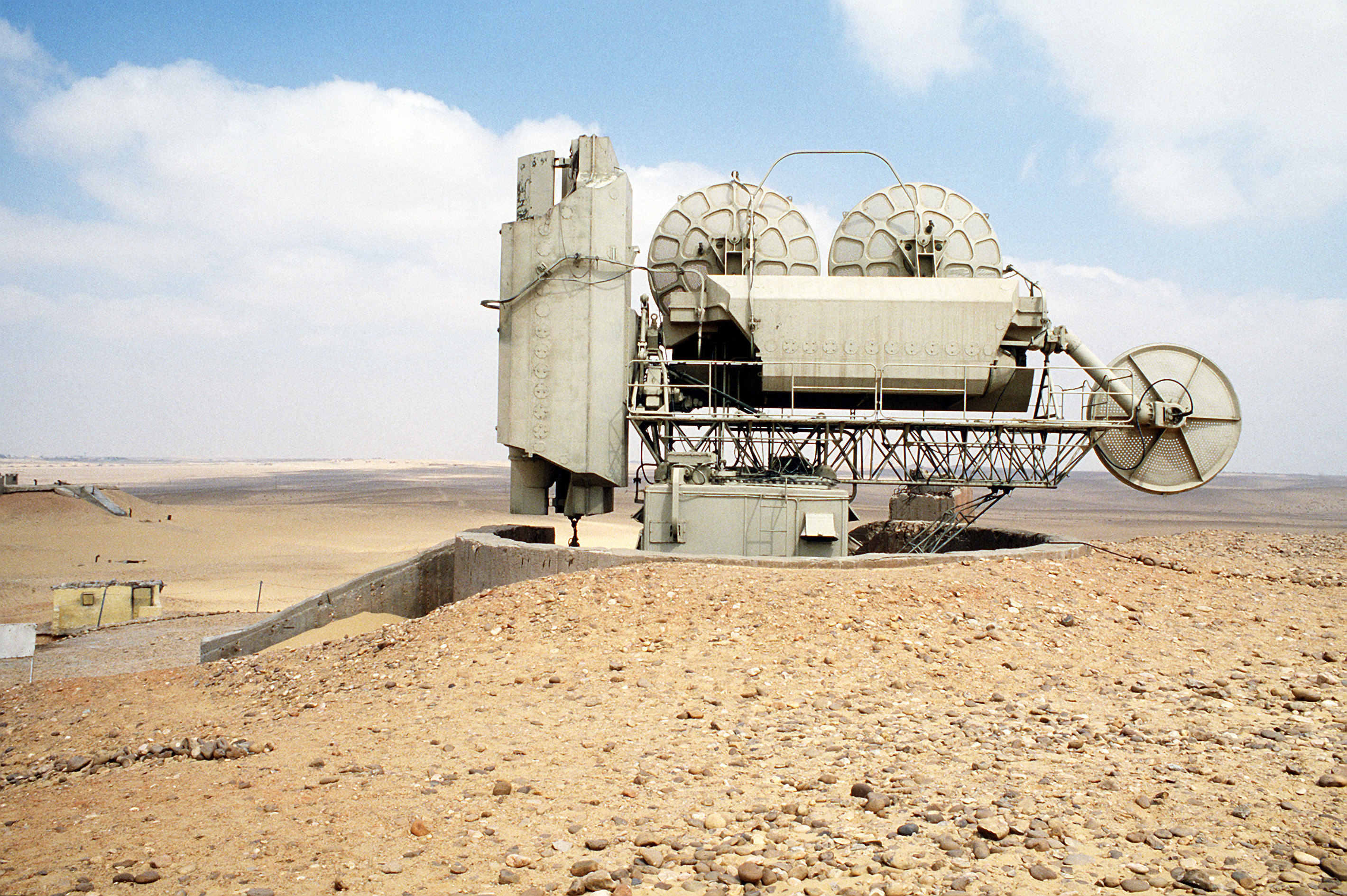 The Egyptian SA-2 surface-to-air Fan Song E fire control radar of the SA-2 system, in operation during the multinational joint service exercise Bright Star '85.